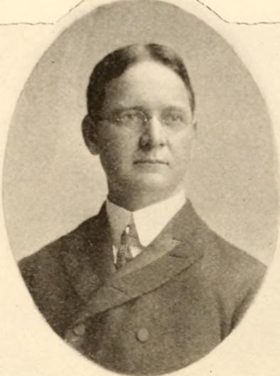 Portrait of New York assemblyman Edward R. O'Malley